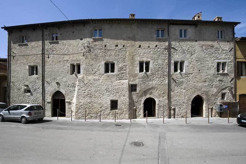 Palazzo dei Melatino